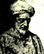 Statue Ibn Gabirol in Malaga by american sculptur Reed Armstrong 1969